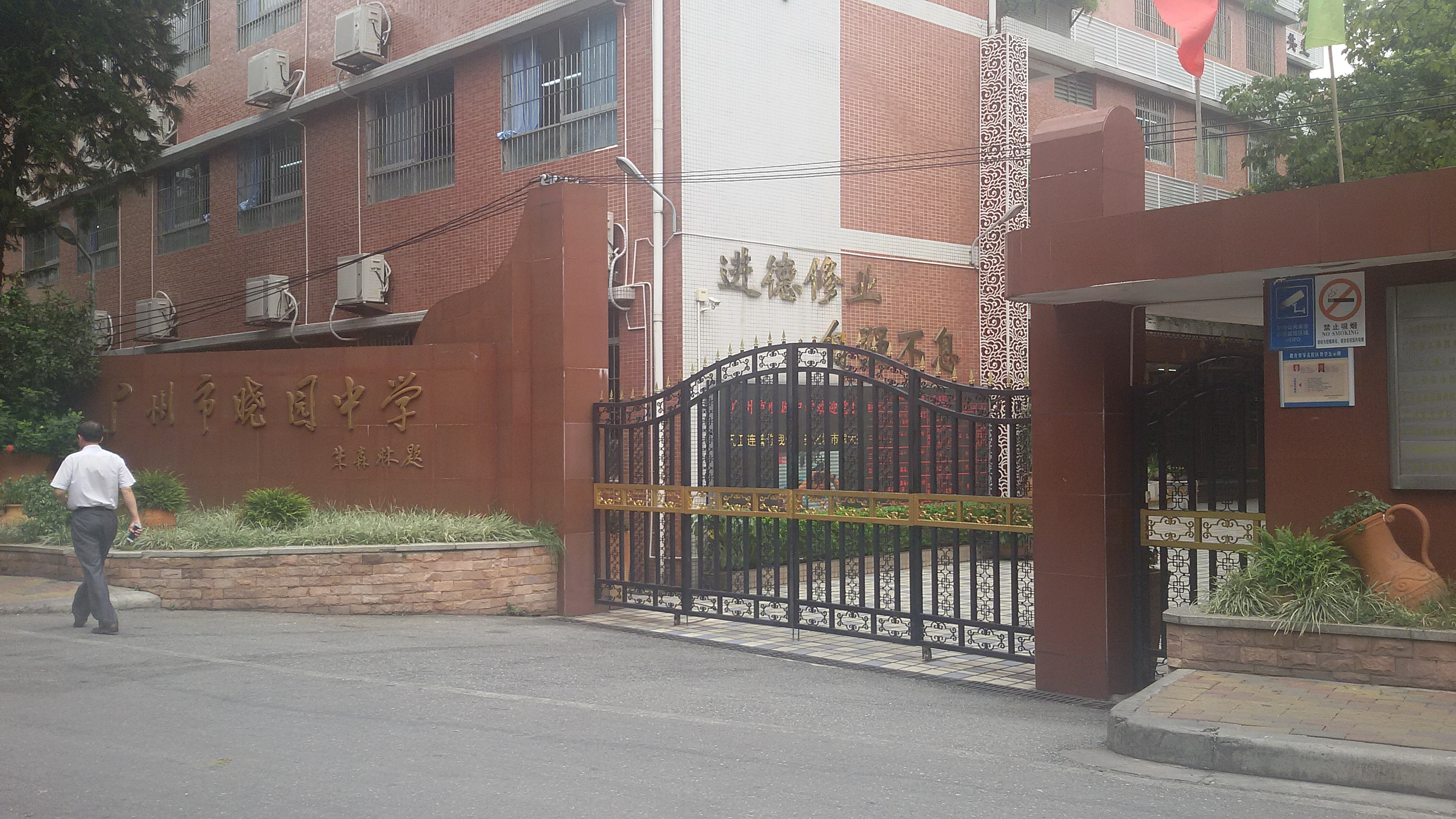 广州市晓园中学嘅大门